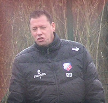 Dutch ex-athlete Rob Druppers